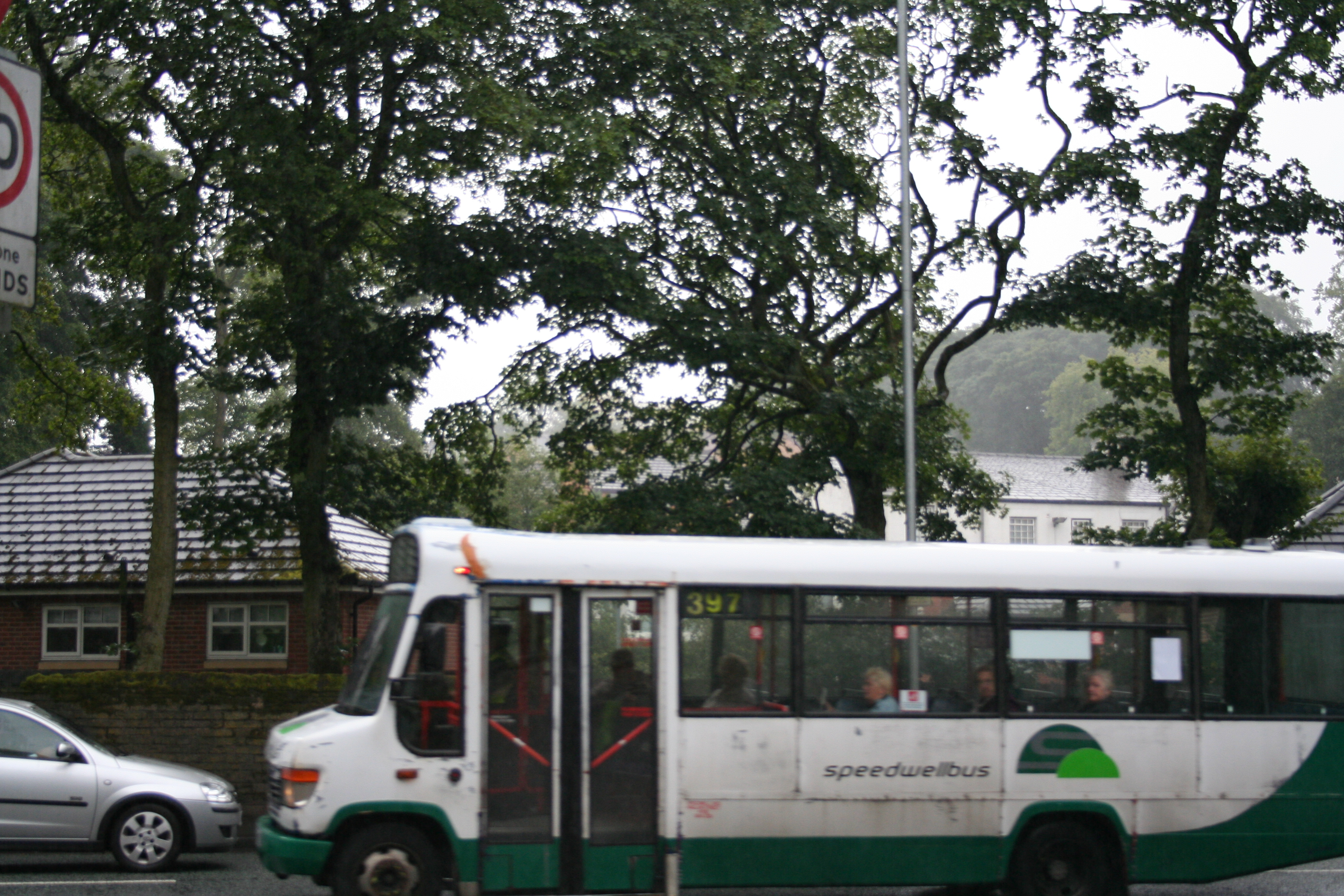 397 at arches